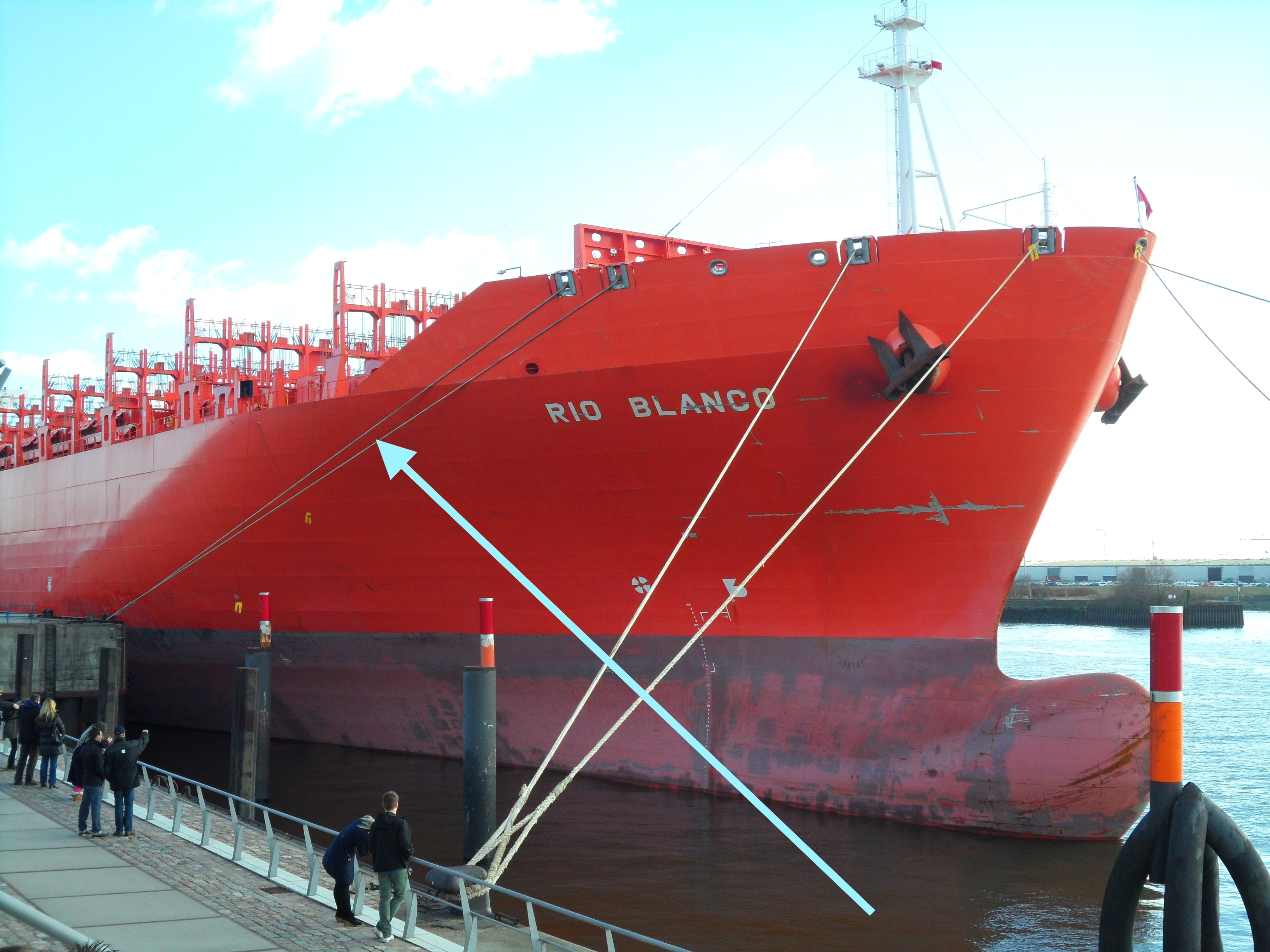 Vorspring of the container ship RIO BLANCO from the HSDG shipping company, Hamburg in February 2012